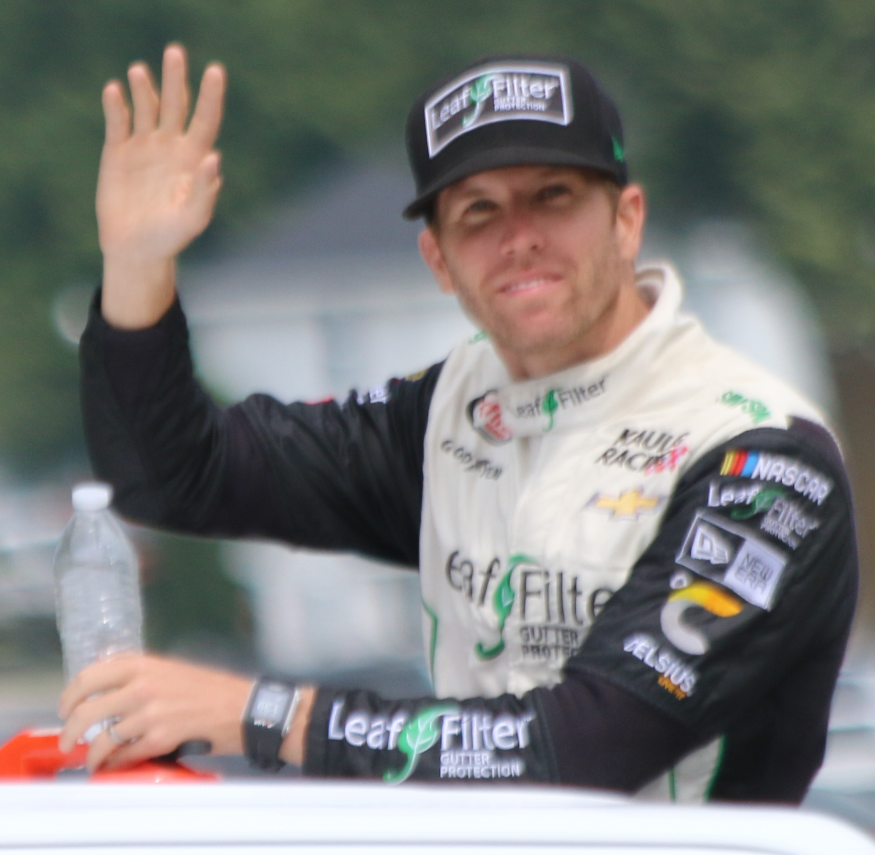 NASCAR driver Blake Koch during the driver's introductions lap at the 2017 Johnsonville 180 race in the Xfinity Series race at Road America.